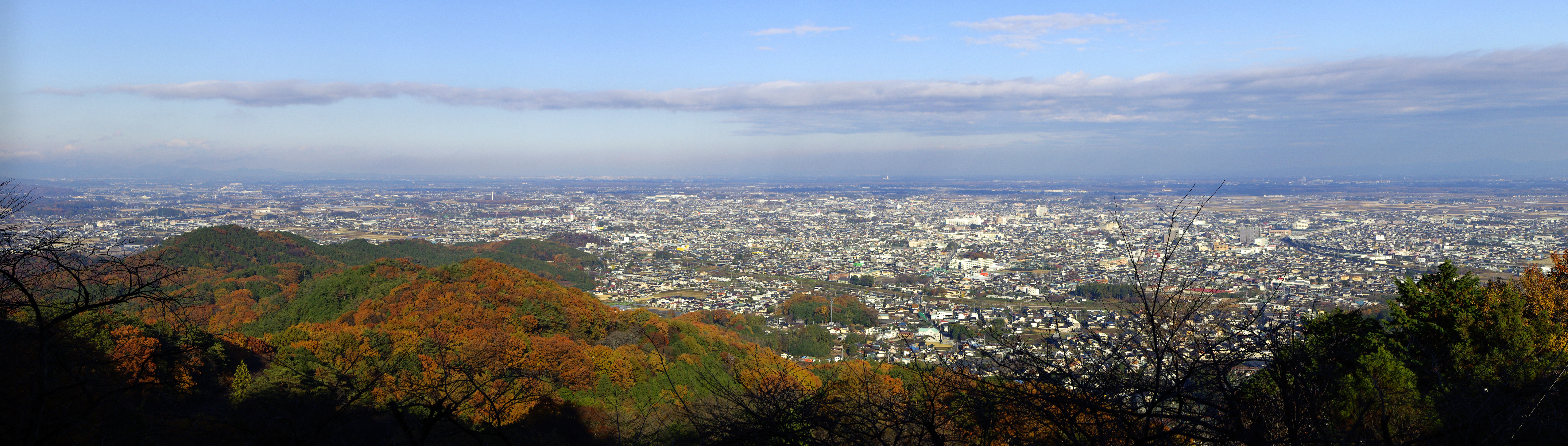 Panorama of Tochigi city (Tochigi prefecture, Japan) from Mt. Ohira.